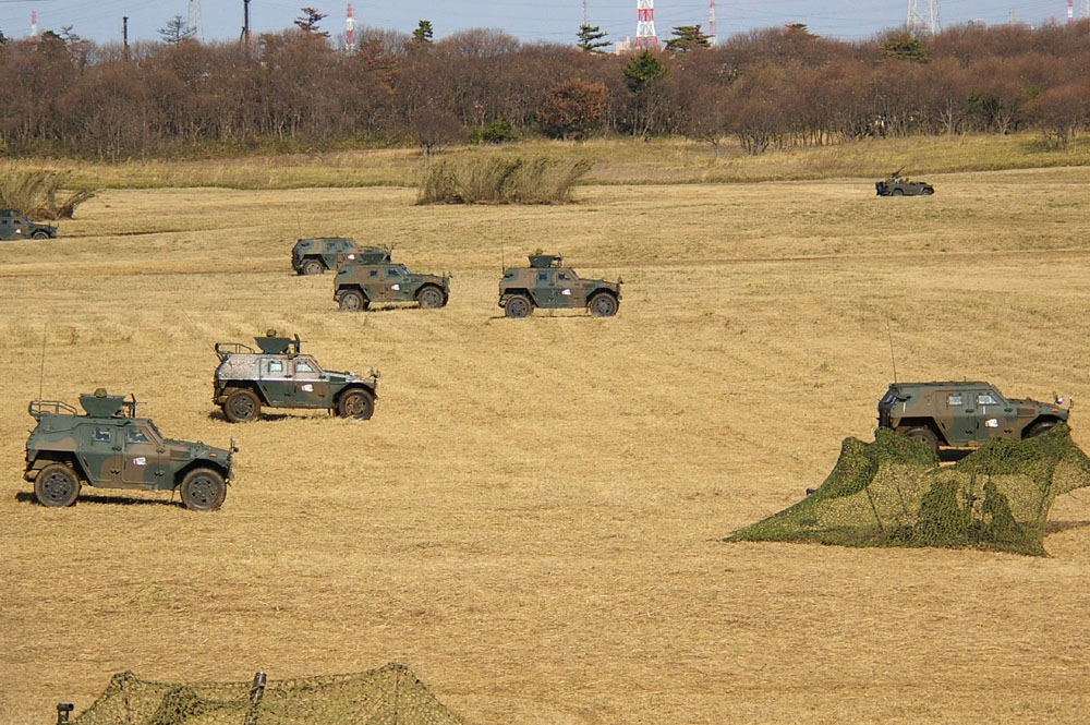 JGSDF 1st Airborne Brigade manuver.Taken by Los688,in Narashino,Japan,at 07-Jan-2007,JGSDF 1st Airborne Brigade 2007 first drop manuver.PD-self 陸上自衛隊 第1空挺団の演習。習志野演習場。軽装甲機動車による突撃想定。